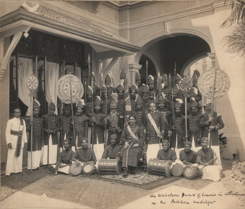 The Sinhalese guard of honour in attendance in the Padikara Mudali Nanayakkara Rajawasala Appuhamilage Don Arthur de Silva Wijesingha Siriwardana (1889-1947)